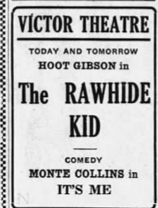 Victor Theater advertisement for the American western film The Rawhide Kid (1928) - 13 Feb Mail Call - Allentown PA